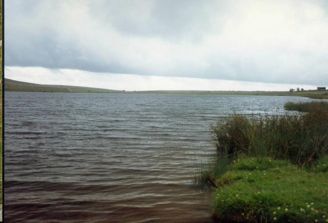 Dozmary Pool. Allegedly the home of the Lady in the Lake of Arthurian Legend and also reputed to be bottomless.